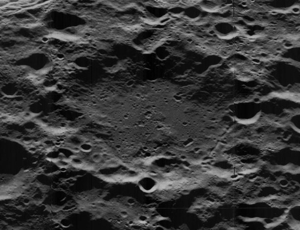 Oblique view of H. G. Wells, on the far side of the moon, facing west.